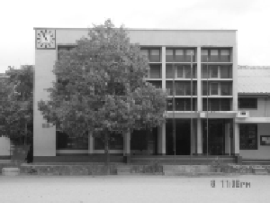 Property of Thurstan College Colombo